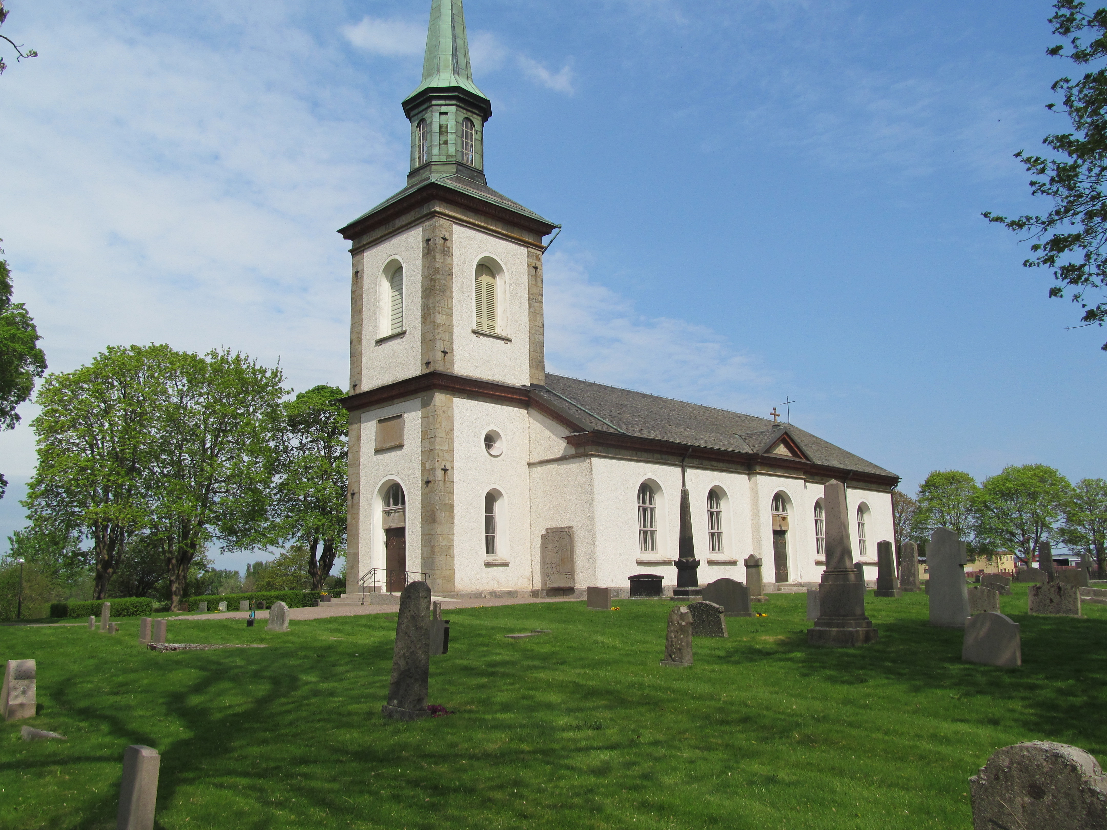 Church of Tråvad